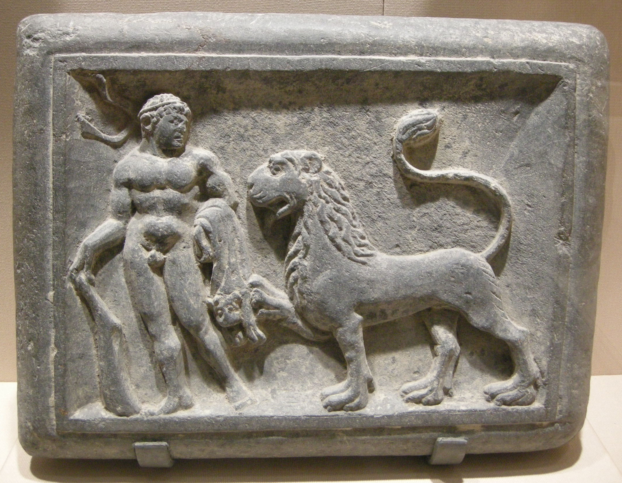 Wrestler's weight with Hercules and the Nemean Lion; reverse : Wrestling scene. Schist, : 10 1/4 x 13 3/4 in. (26 x 34.9 cm). Gandhara, 1st century.